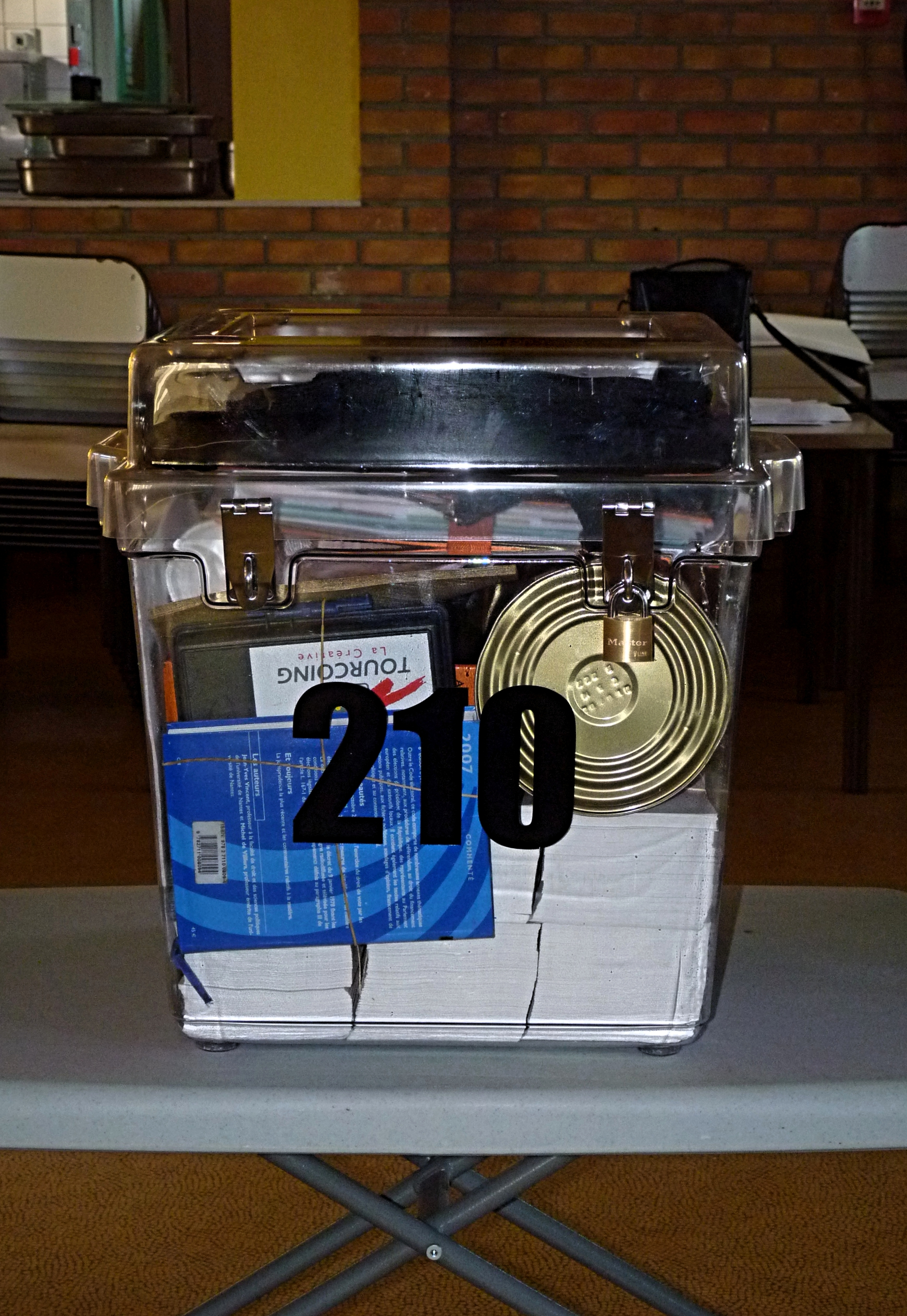 Ballot box used for the presidential election of April 22nd, 2012 in France, picture taken half an hour before the official opening of polling stations in Tourcoing (Nord), France.